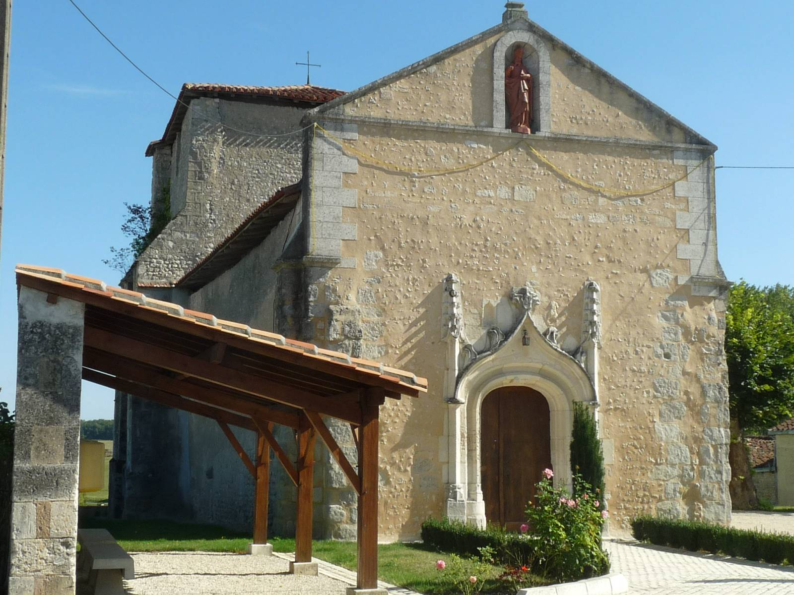 church of Saint-Martial, Charente, SW France